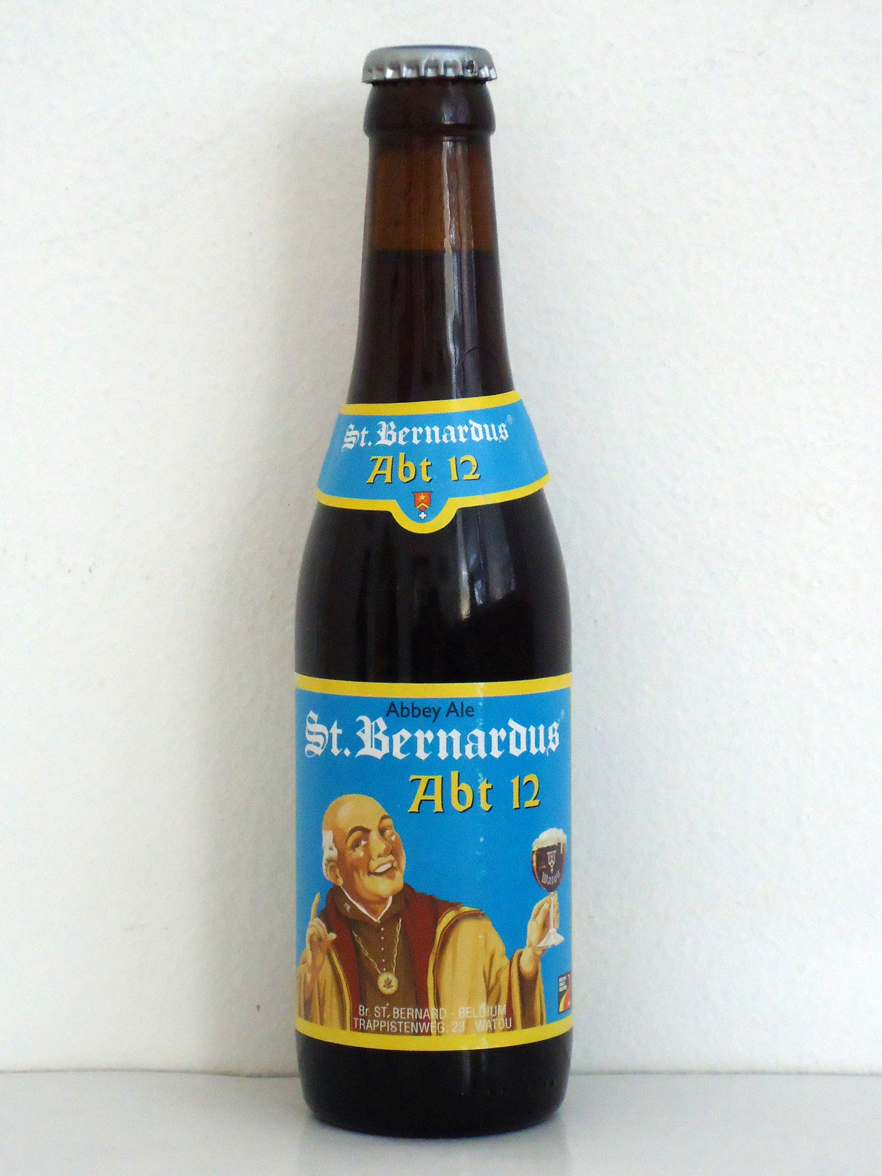 St.Bernardus Abt 12